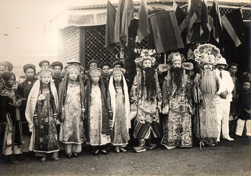 1800's photograph of Vietnamese theatre actors. Old and bad quality, featured in site filled with old photographs.